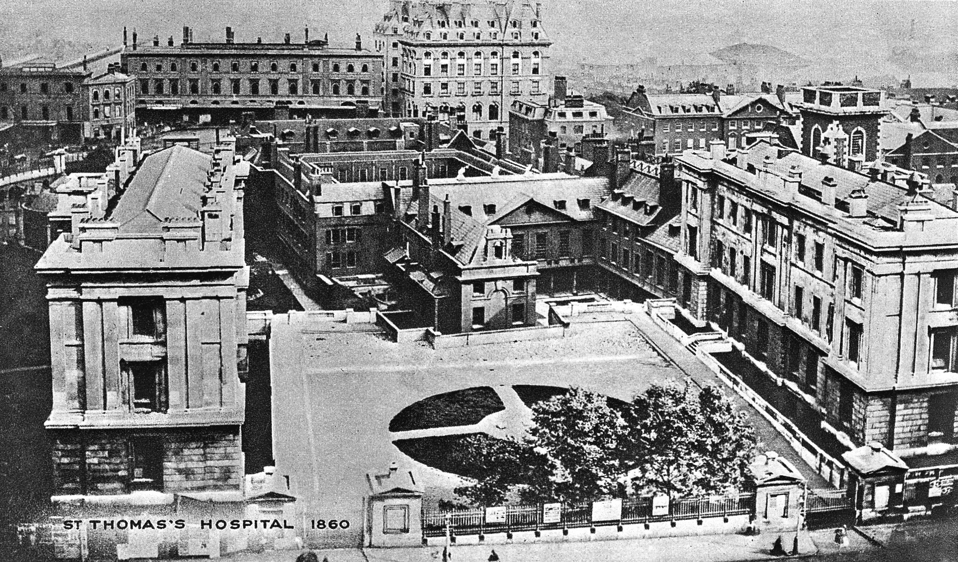 'St Thomas's Hospital 1860', aerial view General Collections Keywords: Institutions